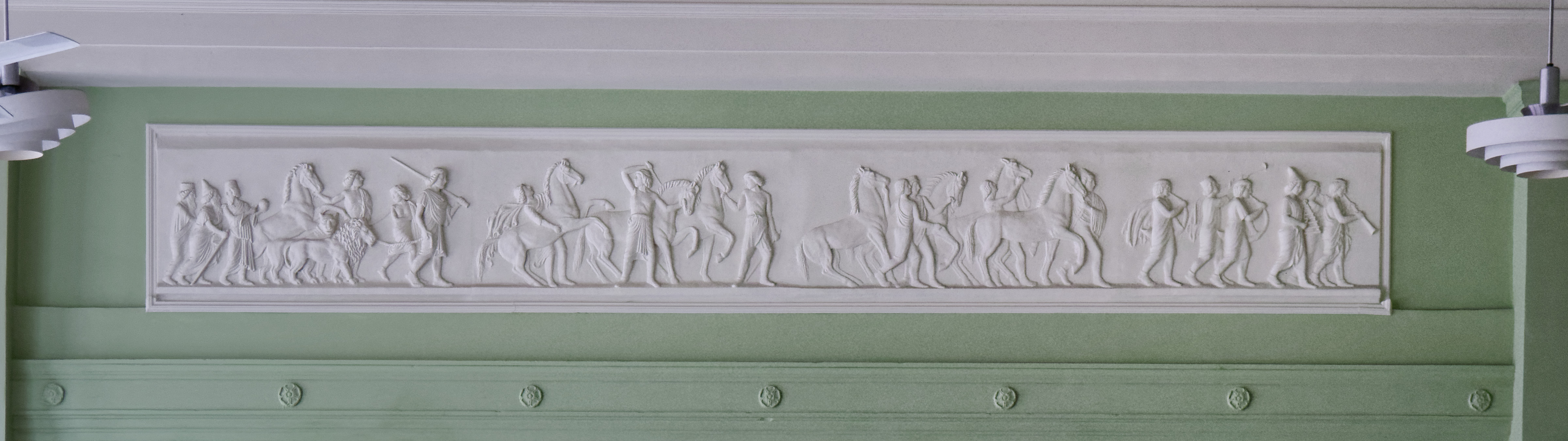 PROPERTY FEATURES Period of Significance:1925-1949 1900-1924 Area of Significance:Architecture Applicable Criteria:Architecture/EngineeringHistoric Use:Education: School Architectural Style:Tudor Revival Type:Building Architect:Law,Law,and Potter DESIGNATIONS Historic Status:Listed in the National Register Historic Status:Listed in the State Register National Register Listing Date:03/07/1996 State Register Listing Date:04/25/1995